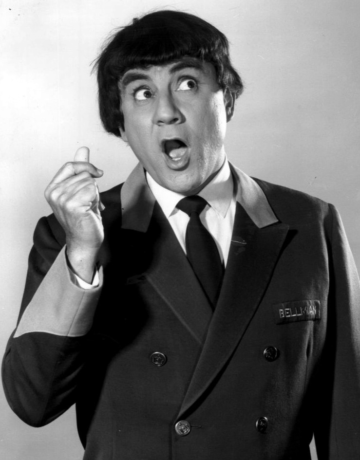 Photo of Bill Dana as Jose Jimemez from his television program The Bill Dana Show. Dana first appeared on television and performed the character on The Danny Thomas Show. After repeated appearances, Dana's character was "spun off" with a separate show. The Andy Griffith Show and The Joey Bishop Show situation comedies, were also "spin-offs" from the Thomas program, where these characters initially made their television debuts.